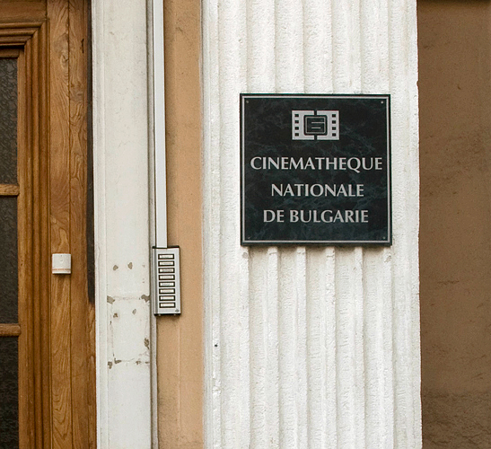 Bulgarian Film Archive, the entrance of the head office